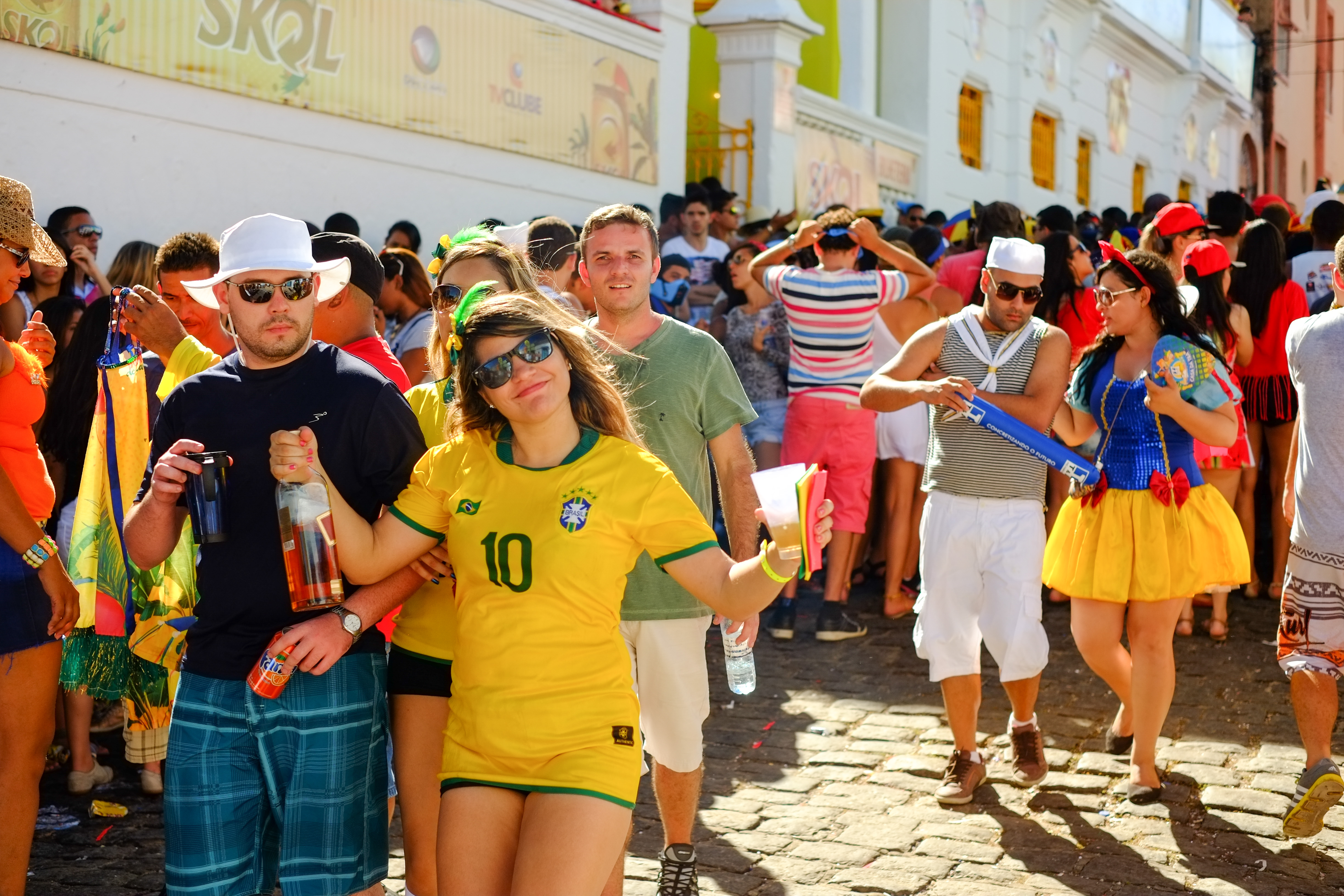 Olinda Carnival - Olinda, Pernambuco, Brazil